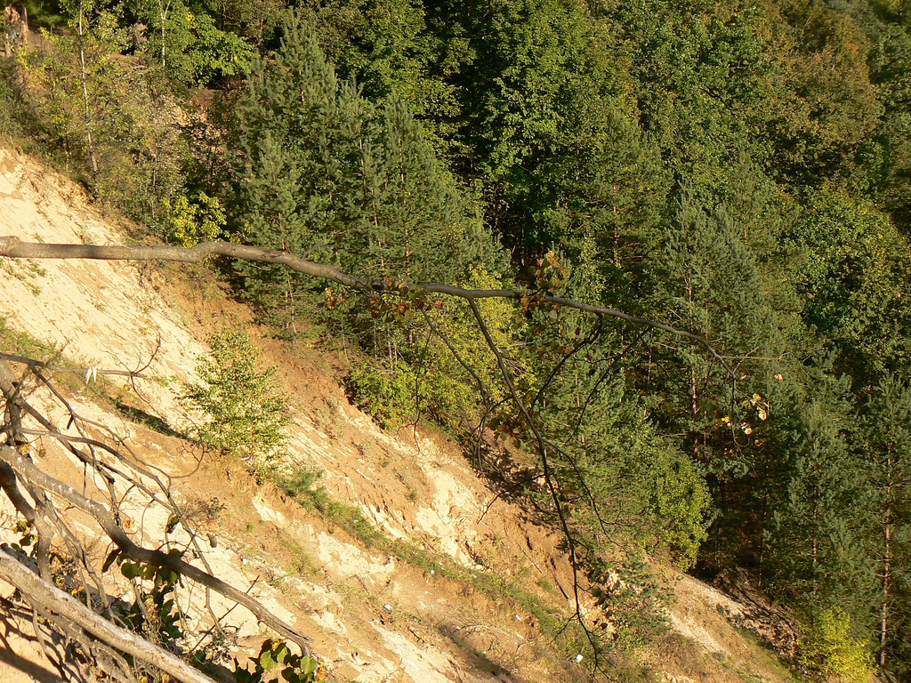 Pūčkoriai exposure at Pavilniai Regional Park.